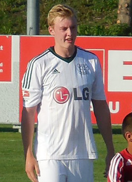 Julian Brandt german footballer playing for Bayer Leverkusen in a friendly match against Olympique de Marseille